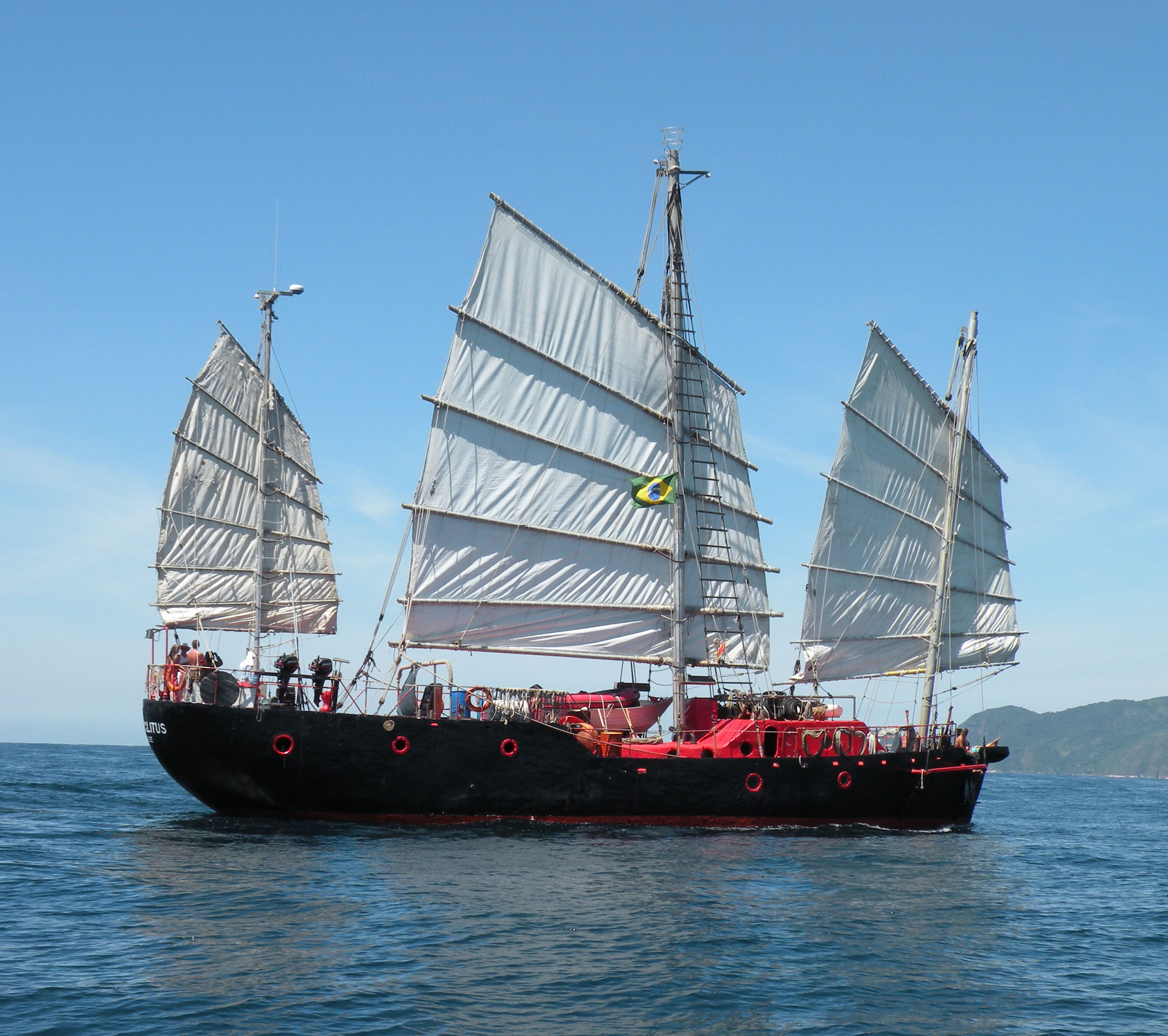 25-meter chinese sailboat built in 1975 by Institute of Ecotechnics